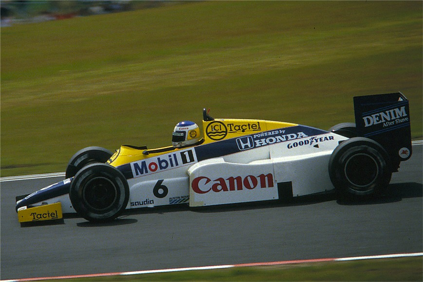 Williams FW10 (Keke Rosberg) at the 1985 German GP on Nürburgring, Germany.